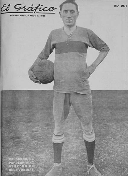 Argentine football right wing, Pedro Calomino, while playing for Boca Juniors.